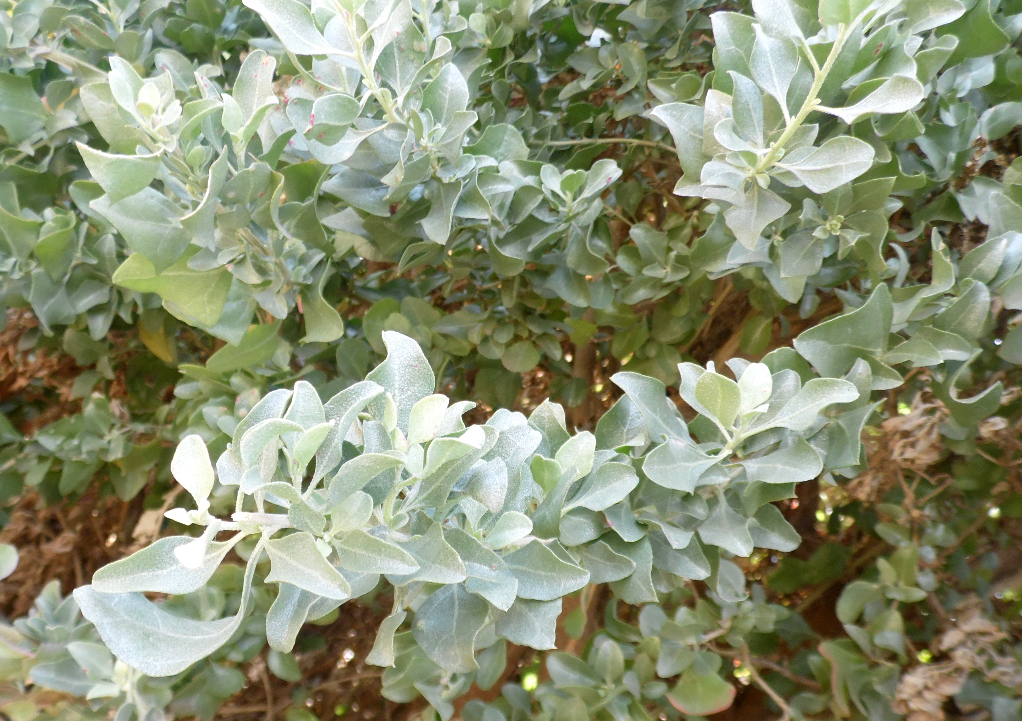 Atriplex halimus in Parque Botánico de Maspalomas (Gran Canaria)